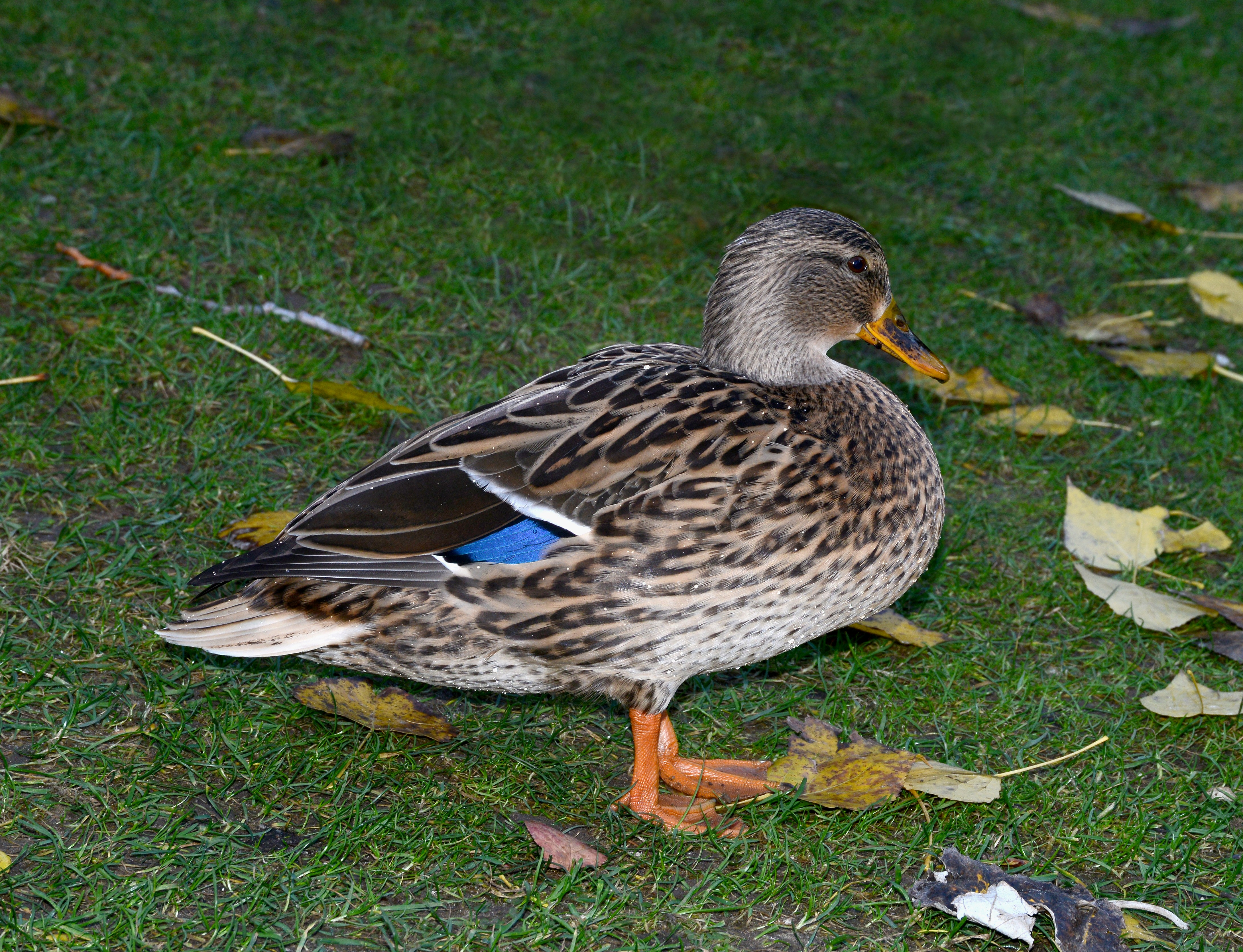 Female Mallard Duck at Gulbenkian Garden, Lisboa